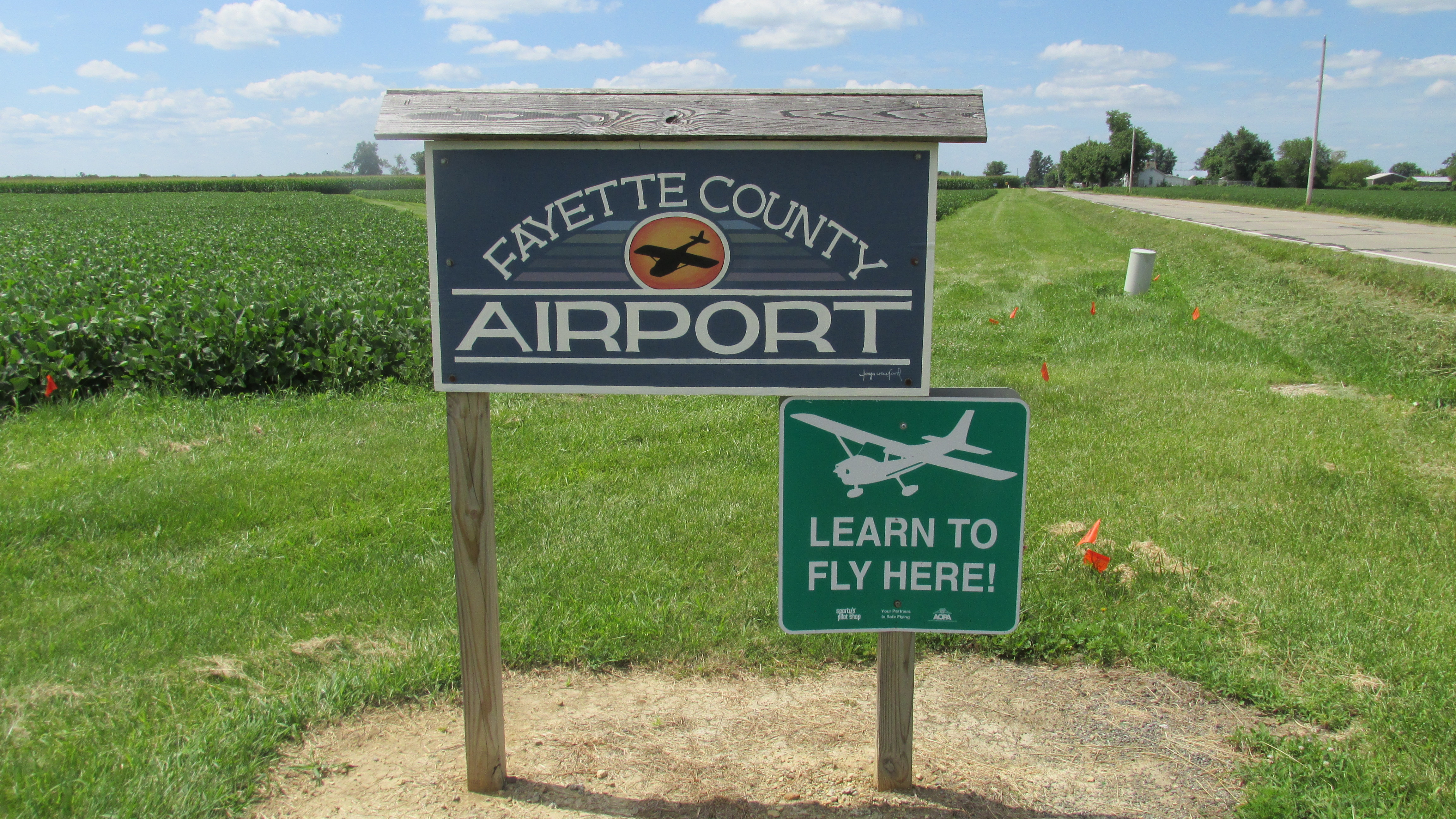 Entrance sign at the Fayette County (Ohio) airport. Signed painted by Tonya Crawford.